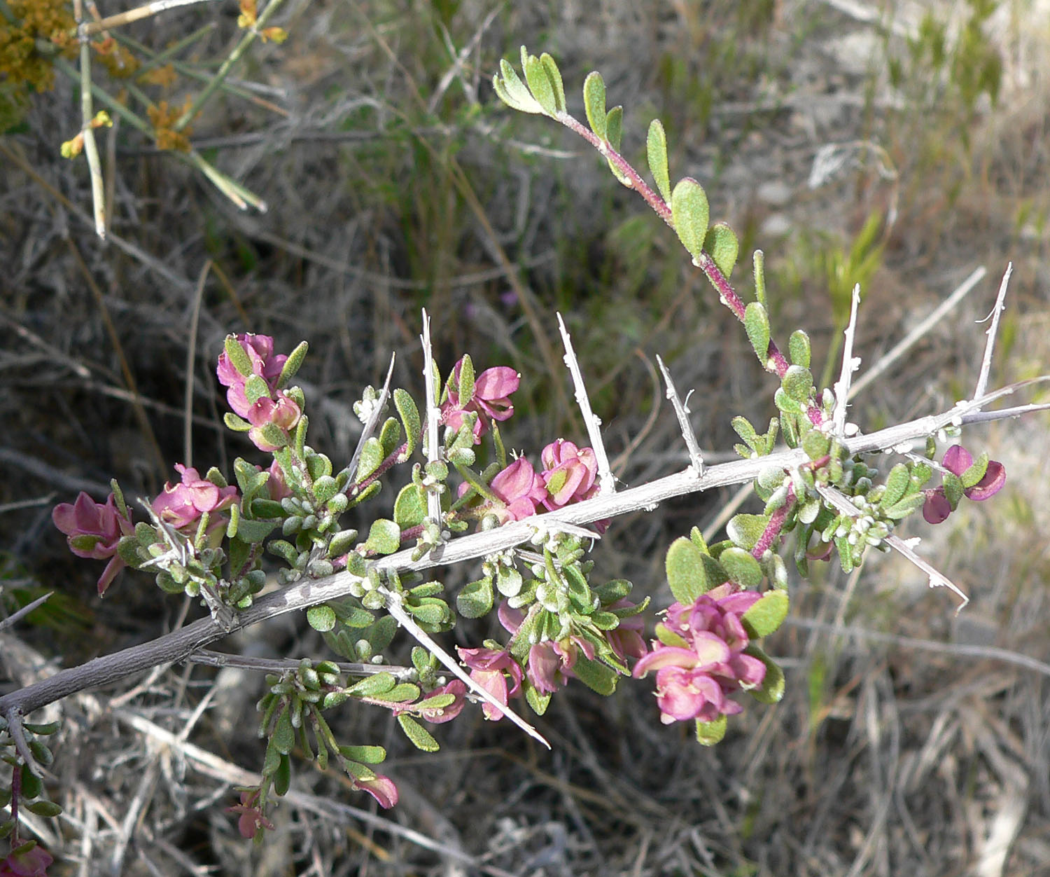 Grayia spinosa near the road in lower Kyle Canyon, Spring Mountains, southern Nevada (elev. about 1600 m)